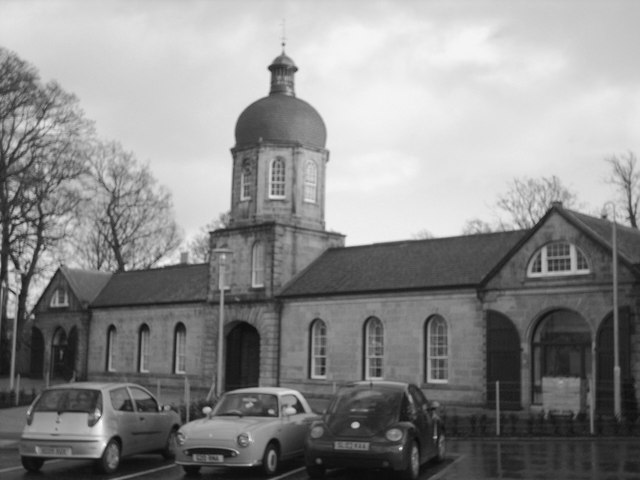 Castlemilk Stables Recently refurbished after many years of neglect. Originally built in 1794, prior to restoration only the surrounding walls survived.